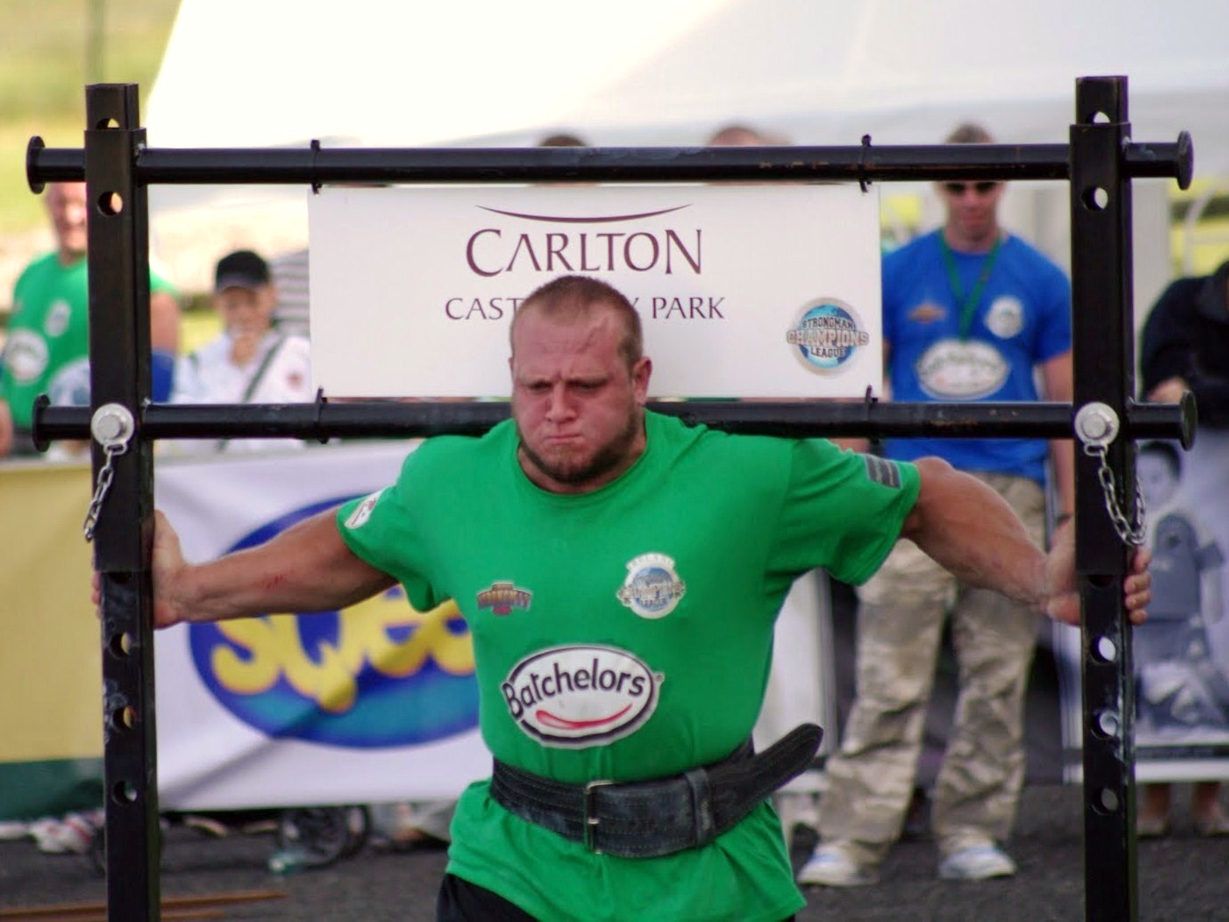 Travis Ortmayer - one of America's best strongmen at the Yoke Walk (something about 400 kg on his back).